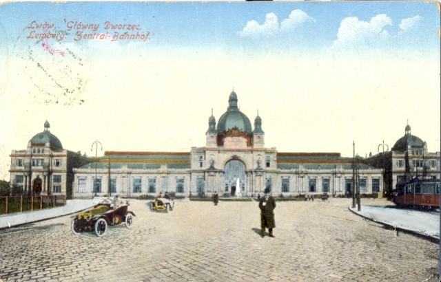 Postcard showing Lwow (Lviv) station, circa 1915-1917. (Quickly painted over the watermark in the lower right corner with GIMP). Numer identyfikacyjny: 01114 Nazwa: Widok ogólny na Dworzec główny Miasto: Lwów Opis: Glówny Dworzec Obiekt i słowa kluczowe: Dworzec, plac, tramwaj elektryczny, fontanna, ludzie Autor: Nieznany Wydawca: Wydawnictwo Salonu Malarzy Polskich, Kraków Data: 1915-1917 Format: 90×140 mm Status prawny: Taras Pinjażko Kolekcja: Taras Piniażko Kategoria: Dworce i stacje kolejowe Technika: Pocztówka Napisy/Podpisy: On obverse: In